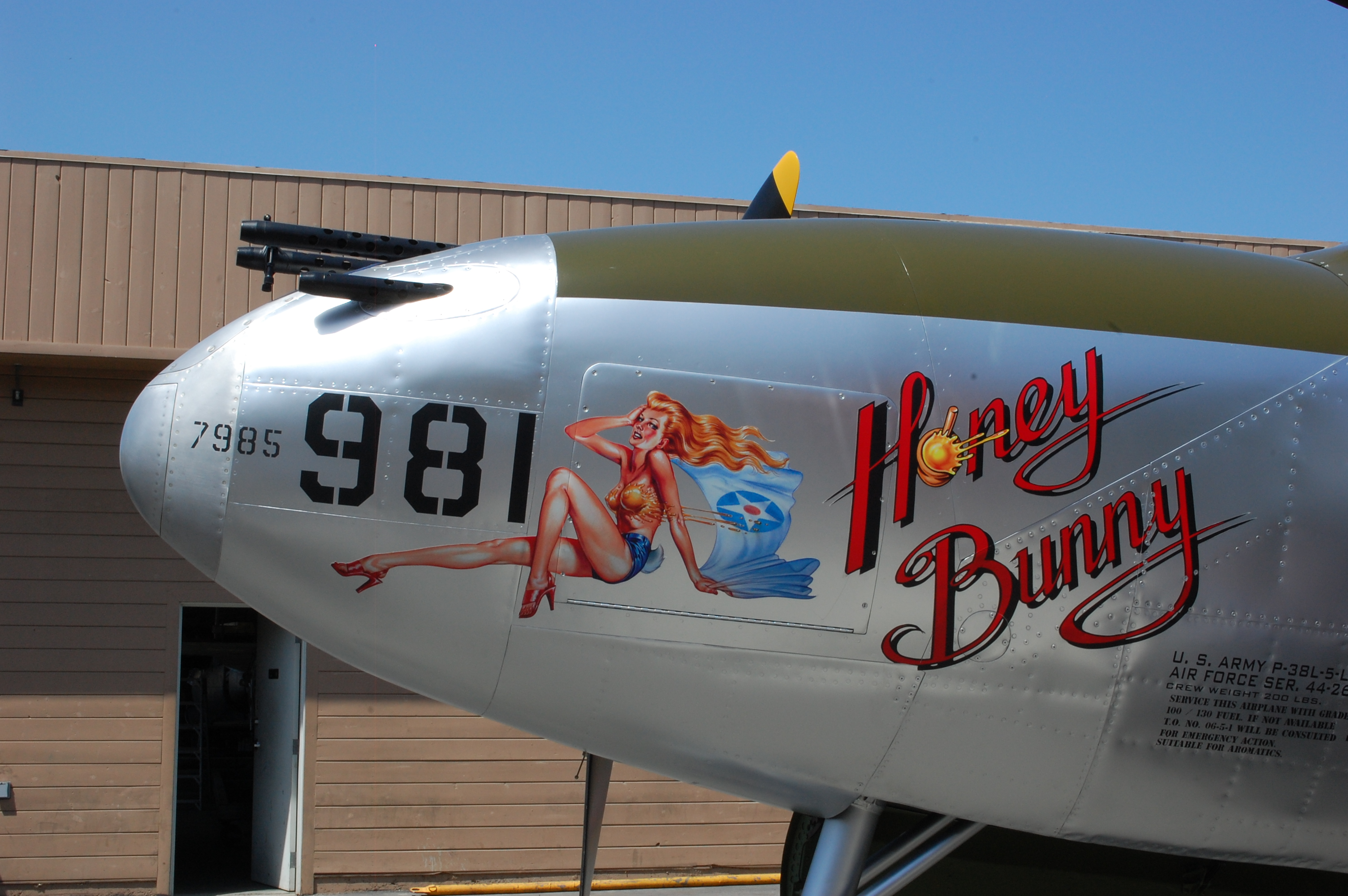 A Lockheed P-38H Lightning, named 'Honey Bunny', at the Planes of Fame Museum in Chino, California